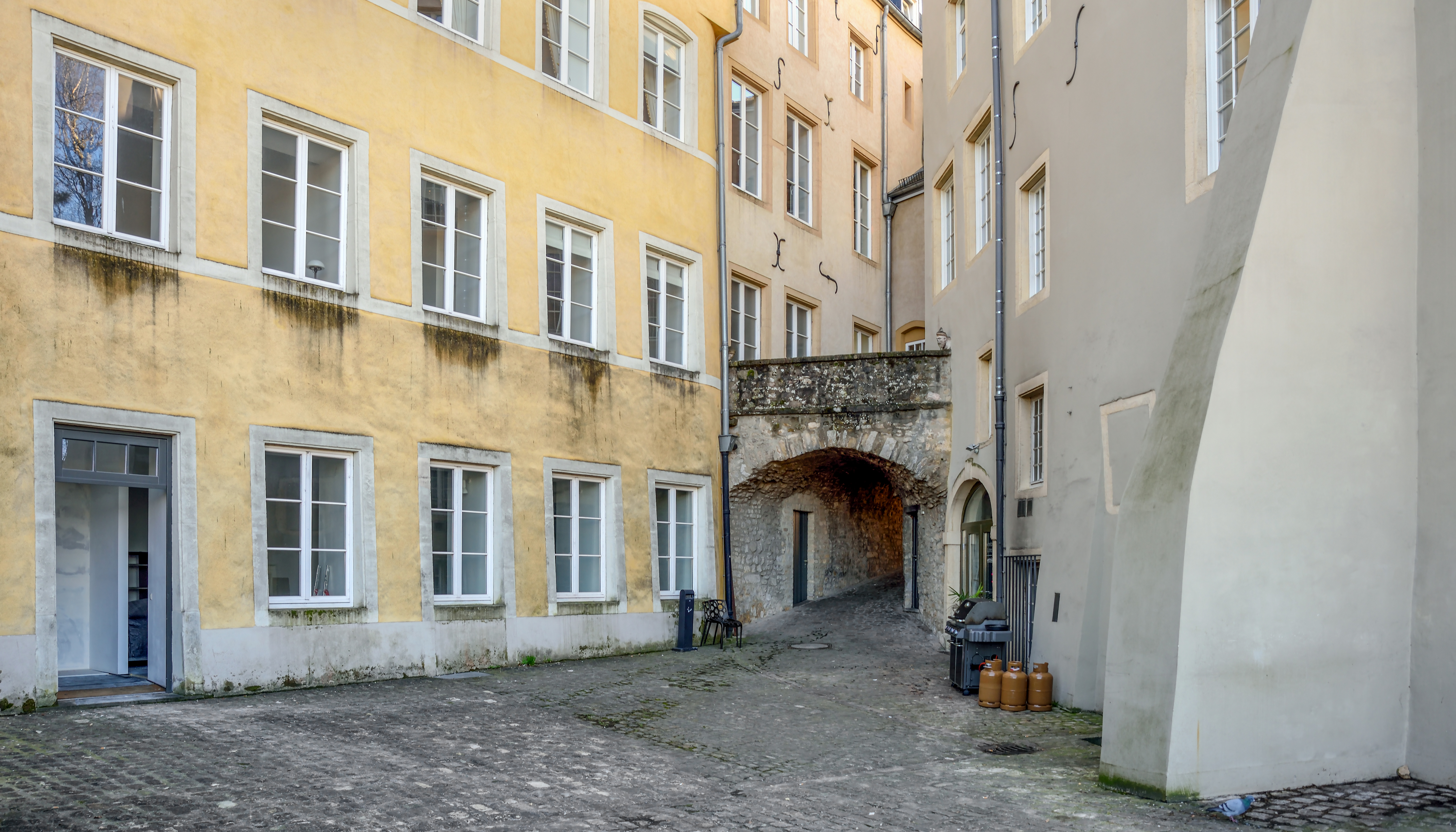 Luxembourg City: Entrance of the so-called Schéieschlach as seen from the defensive wall - above boulevard Thorn - of the ancient fortress. Note the sculptures on both sides of the baluster.